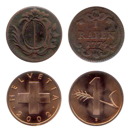 Rappen coins: Canton of Luzern and modern Switzerland